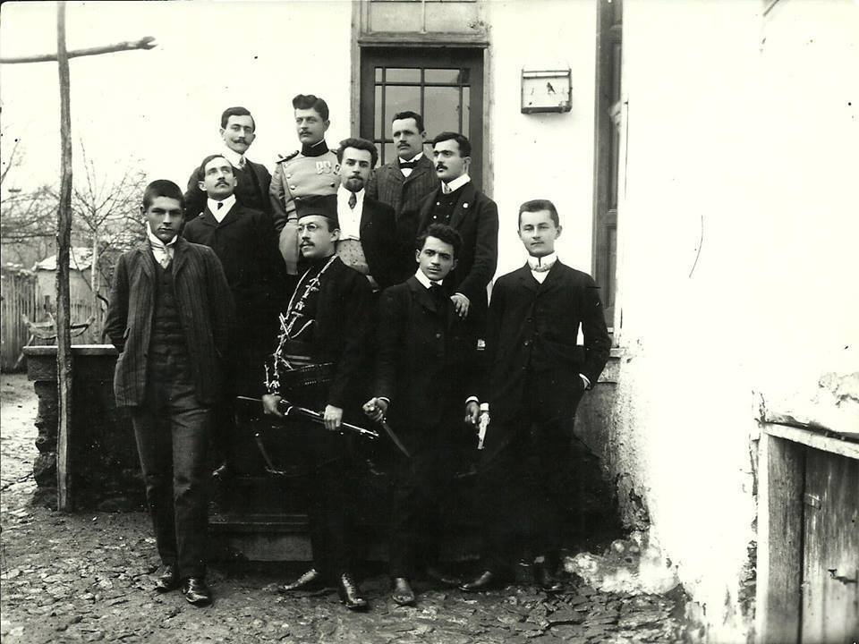 Young Bosnia members in Chetnik training in Vranje, 1908. Top row: Bogdan Žerajić, major Aca Blagojević, Janko Boskovic Mid row: Aco Bogdanovic, Milorad Zevic, Djuro Orlic Bottom row: Vladimir Gacinovic, Dragutin Kokanovic, Jovan Gasic, Spaso Prica